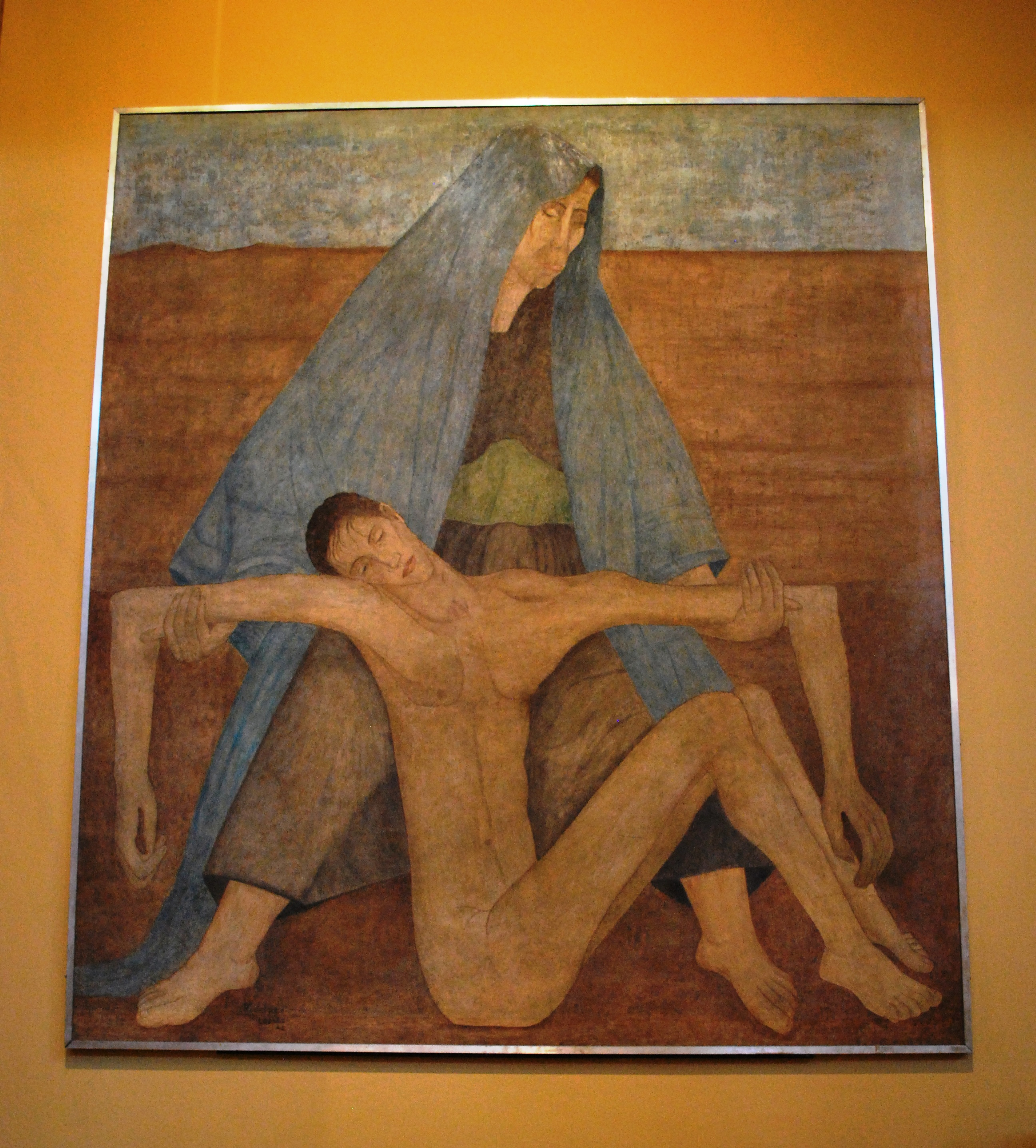 "La Piedad en el Desierto" by Manuel Rodriguez Lozano at the Palacio de Bellas Artes in Mexico City